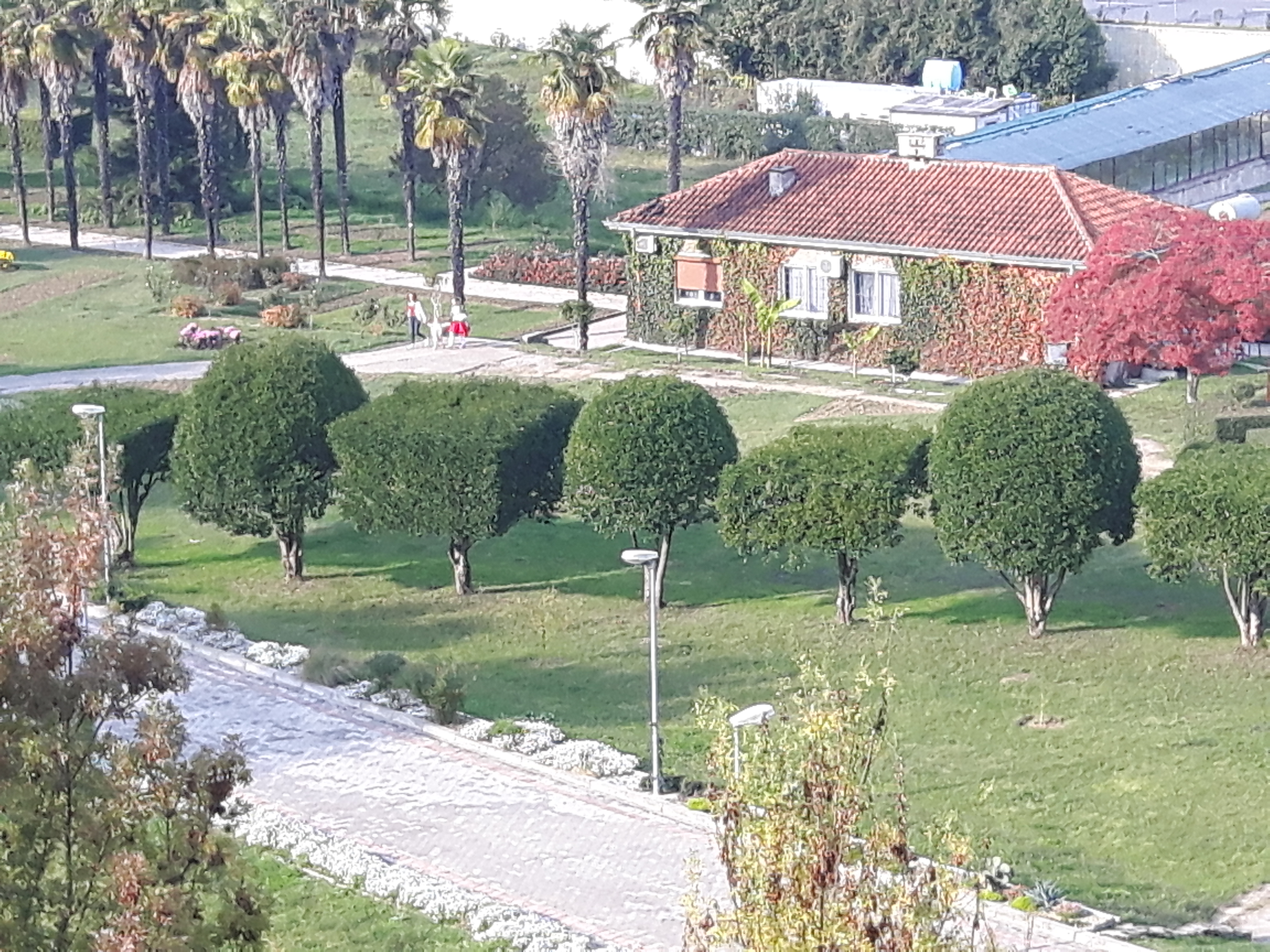 View from the Botanical Garden in Tirana, founded in 1971.